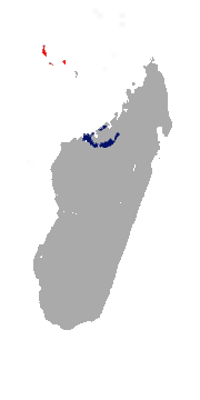 Mongoose Lemur (Eulemur mongoz) range (blue — native, red — introduced)